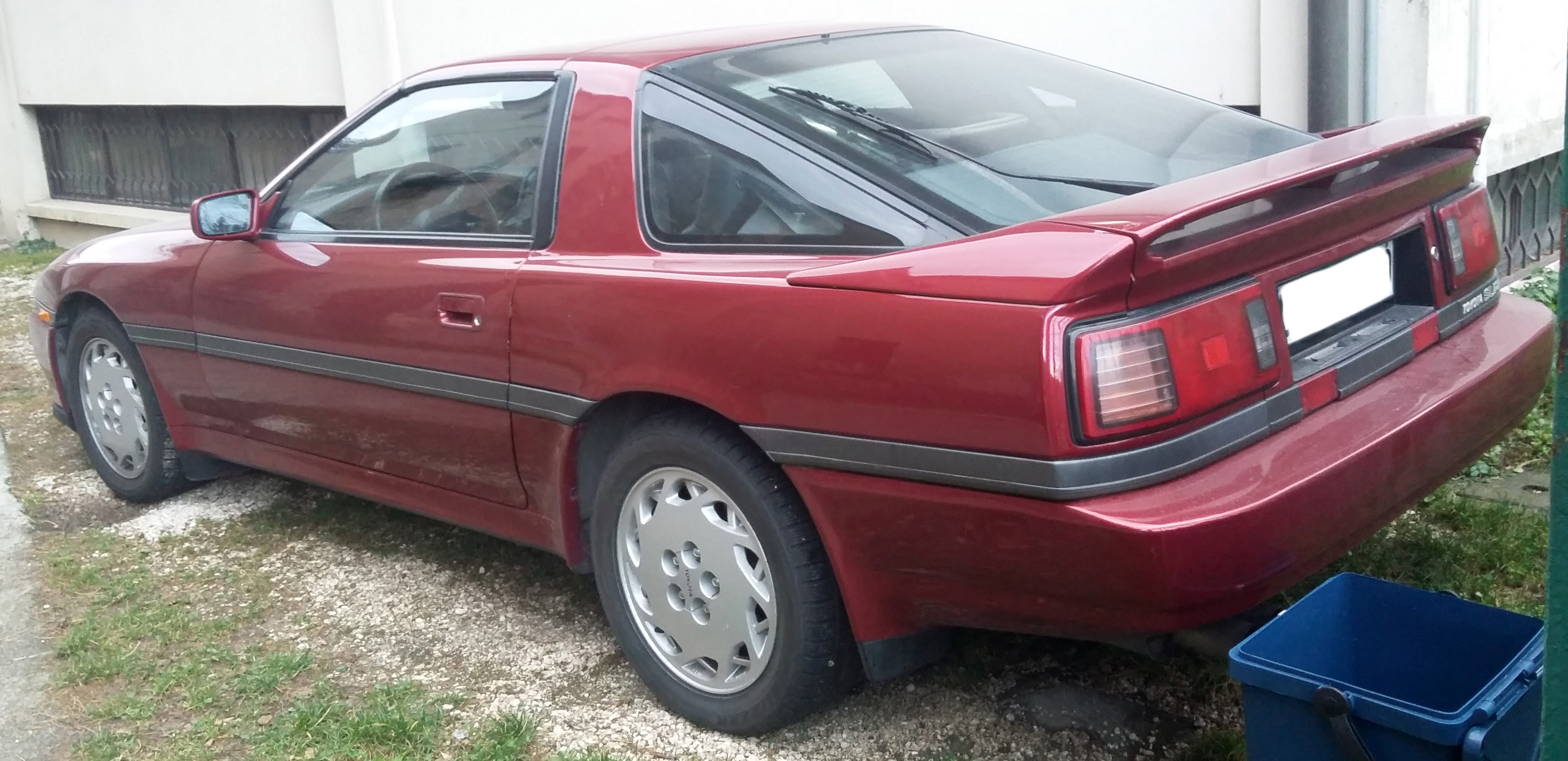 1986-1992 Toyota Supra, rear